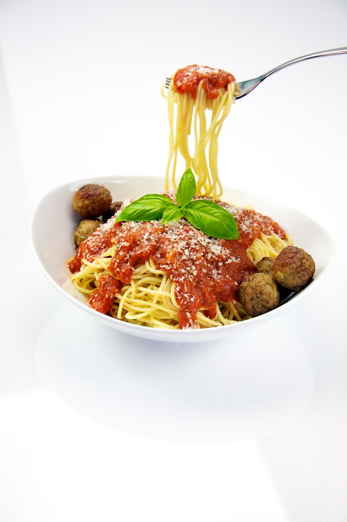 Spaghetti with Meatballs